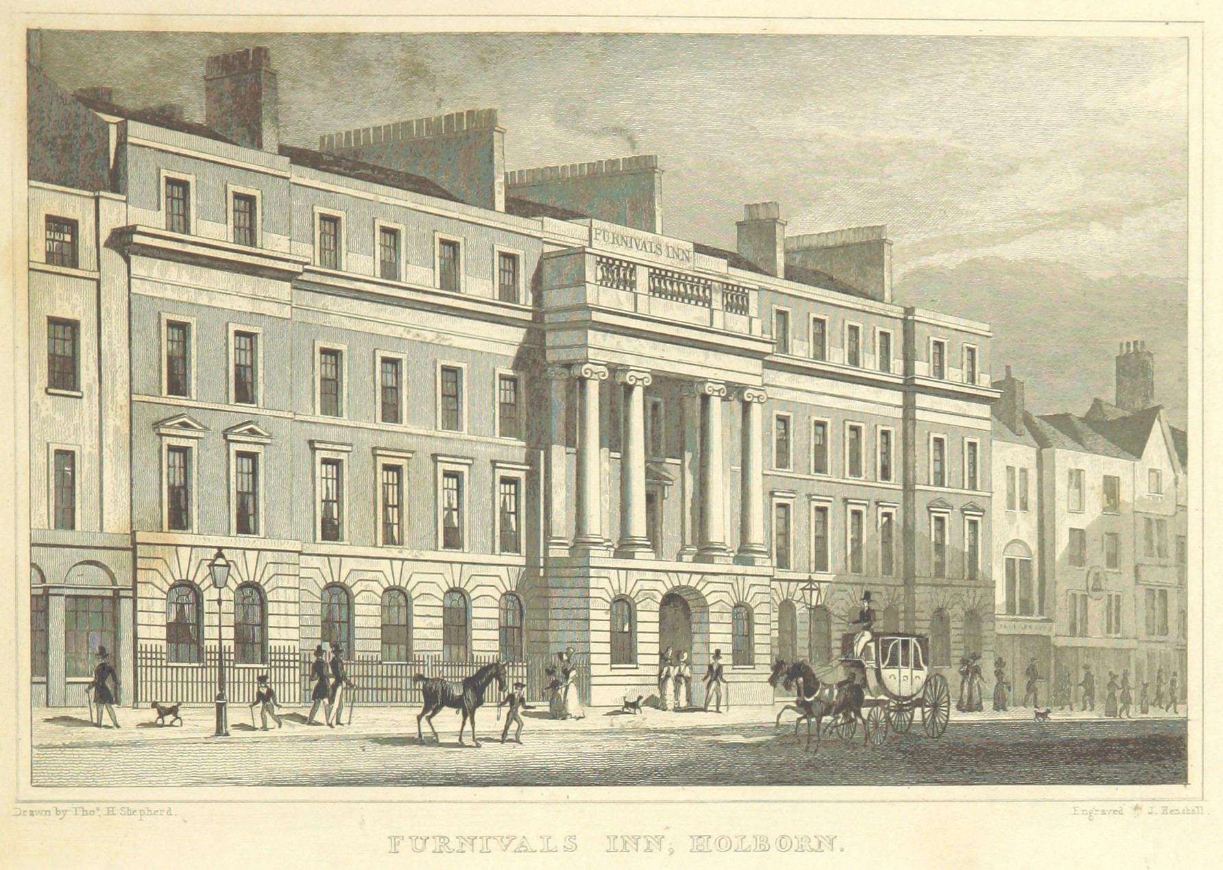 Engraving of Furnival's Inn in Holborn, London, as rebuilt in the early nineteenth century.